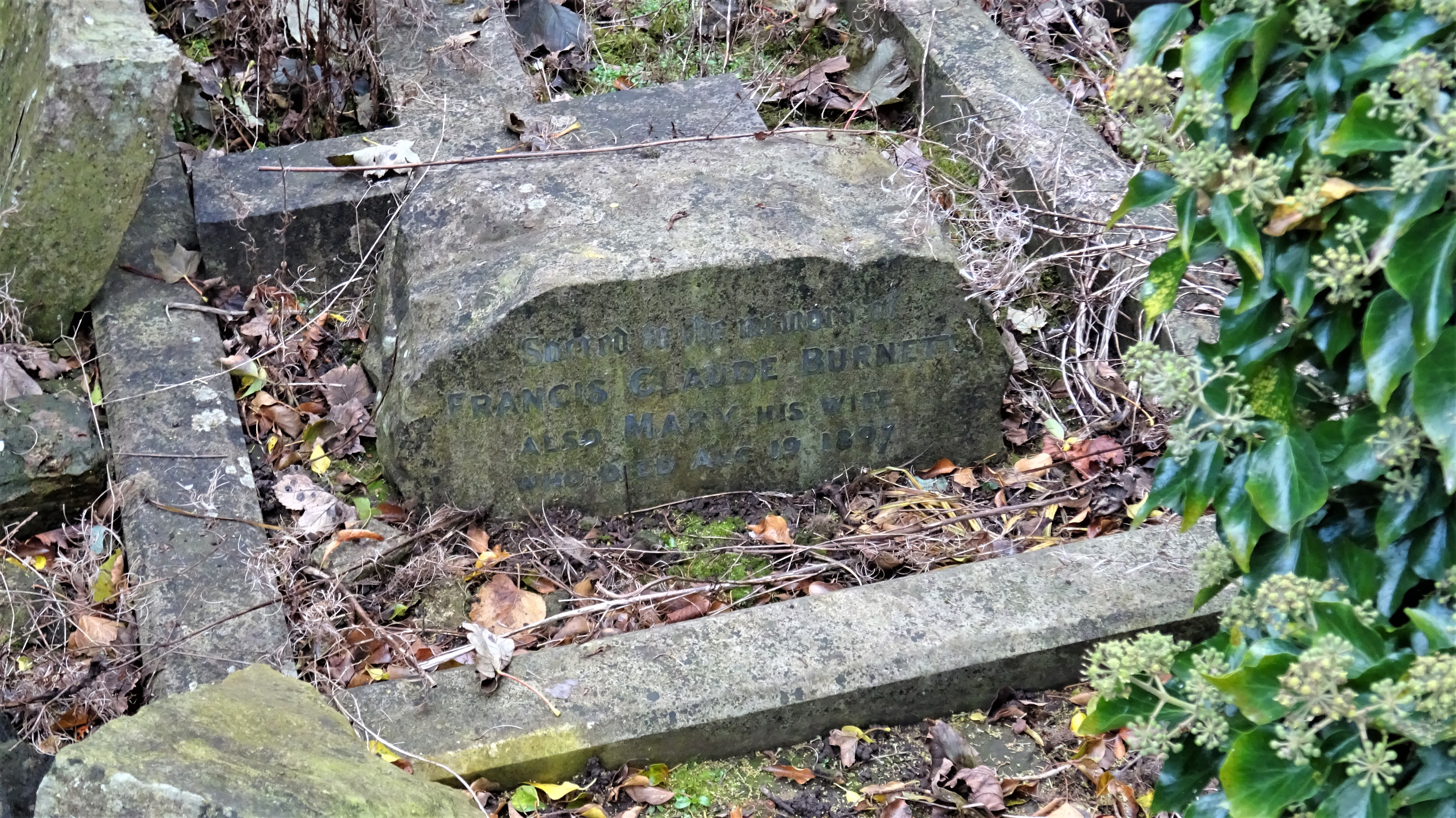 Lieut-Colonel Francis Claude Burnett of Gadgirth, Chalmer Mausoleum, Coylton old parish church, South Ayrshire, Scotland.